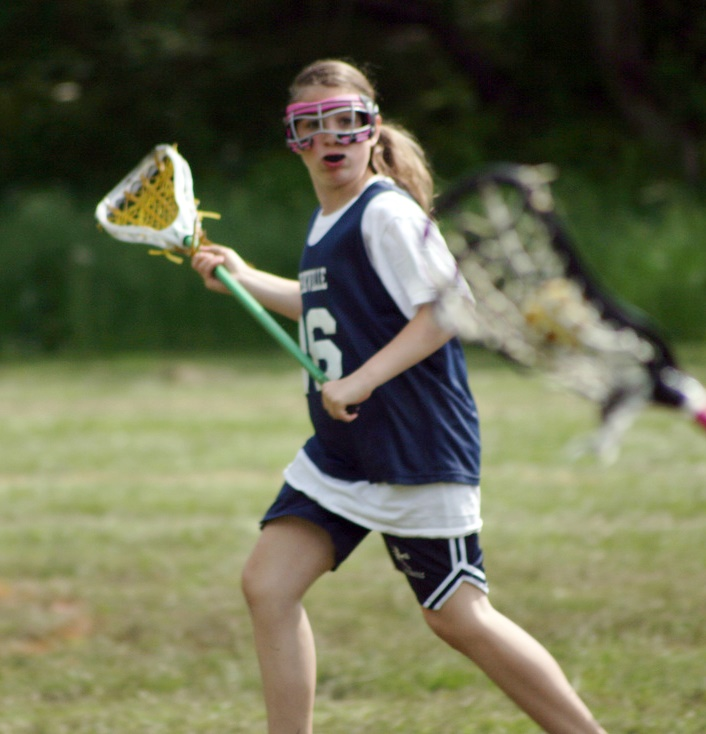 A lacrosse player lines up for a catch.